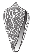 Drawing of apertural view of the shell of Conus borgesi.